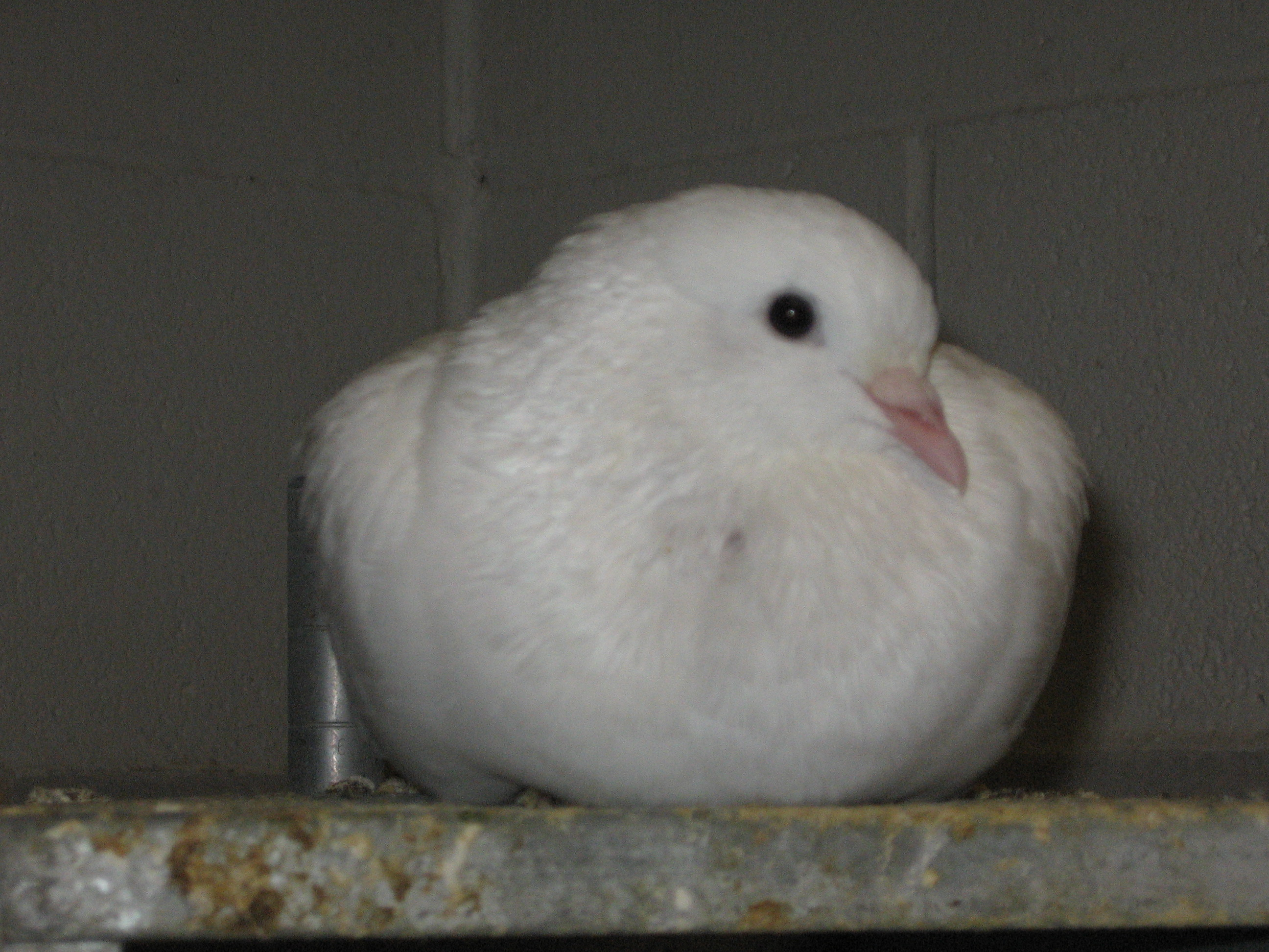 Bird 59 with evidence of stress plucking on chest